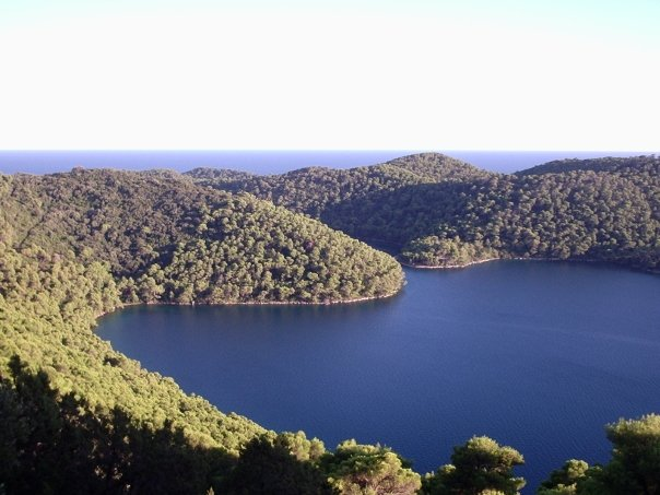 A view on the Great Lake and open see from the place where are ruins of Illyric graves on Mljet, Croatia